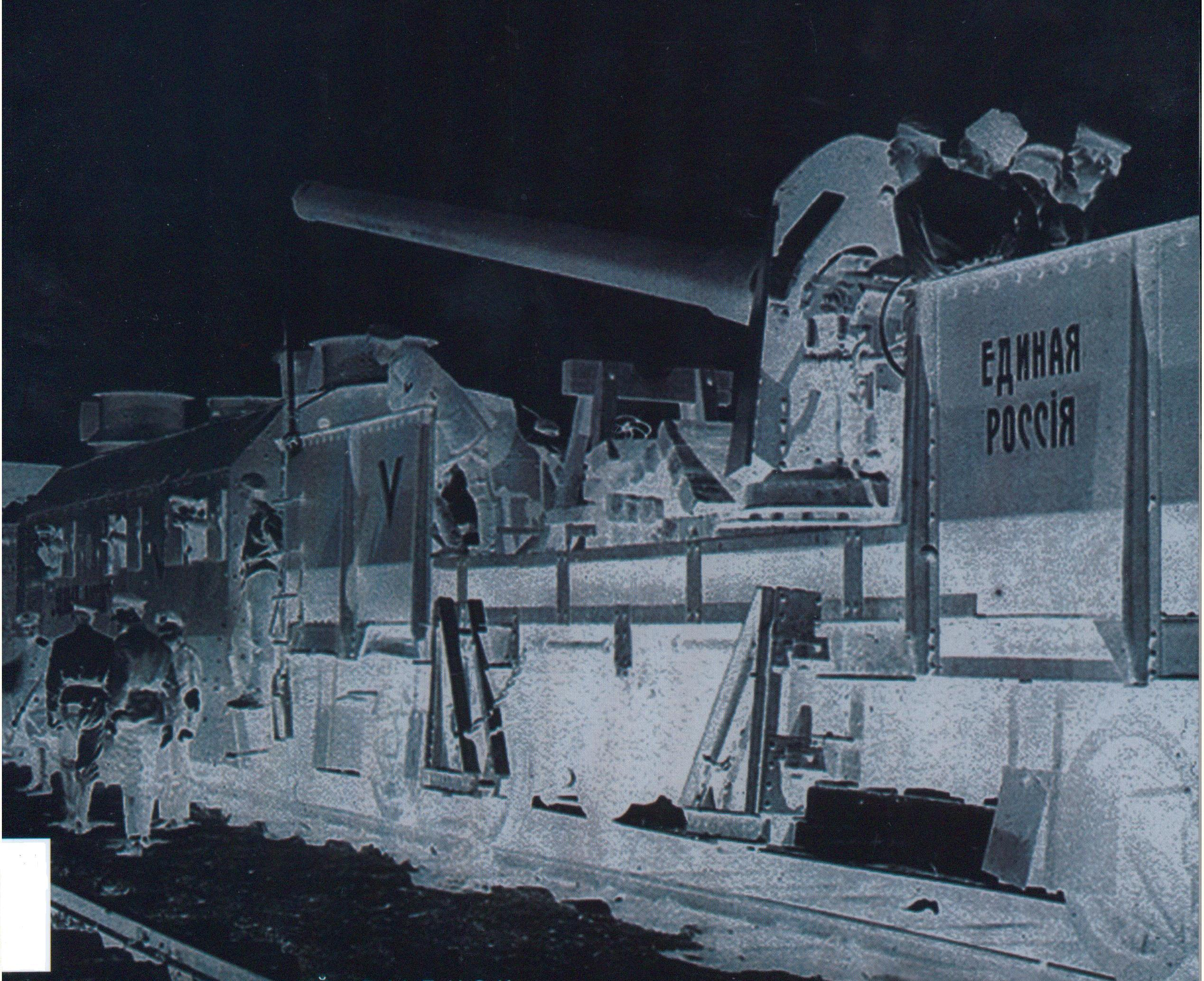 Armoured Whites (Armed Forces of South Russia) train Edinaya Rossiya. 1919